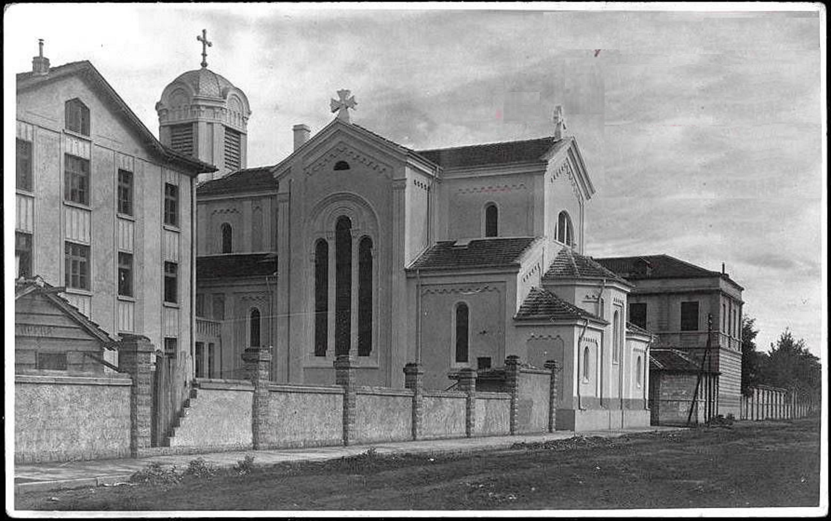 Eastern Catholic Church in Plovdiv